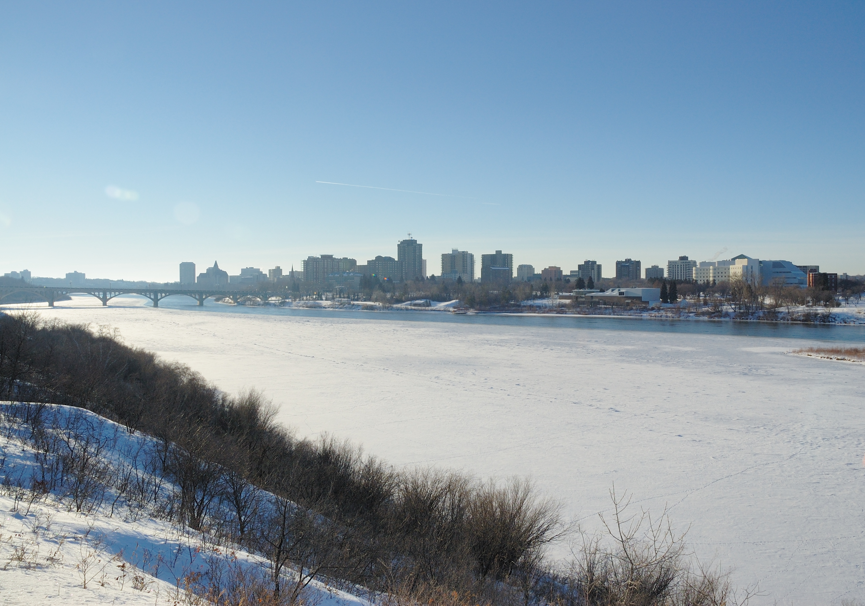 Description View on Saskatoon's Downtown and South Saskatchewan River from the Meewasin Trail on the eastern part of the Saskatoon, Saskatchewan, Canada. On the left is University Bridge.